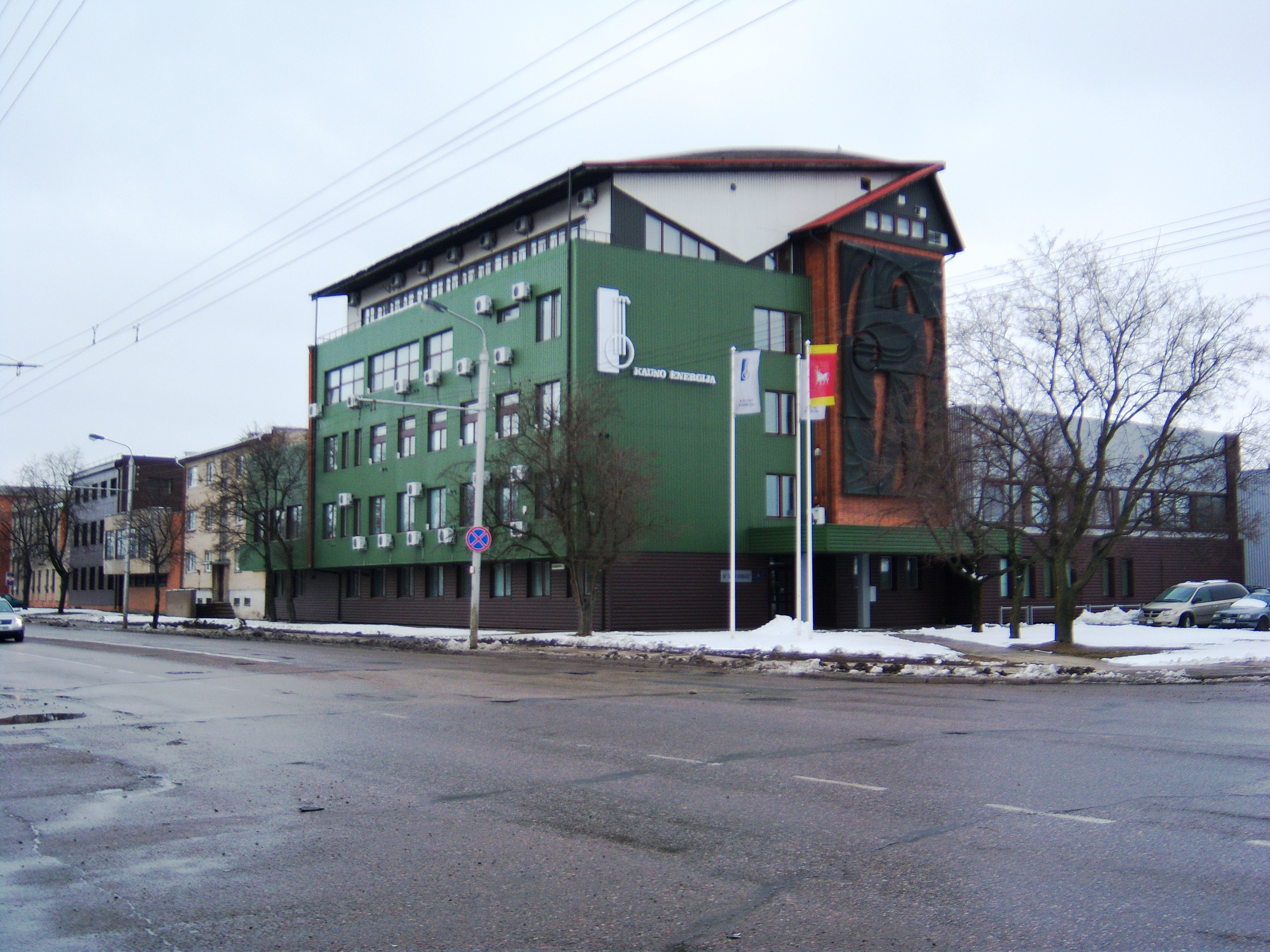 Office building of AB Kauno energija, Raudondvario pl. 84, Kaunas, Lithuania